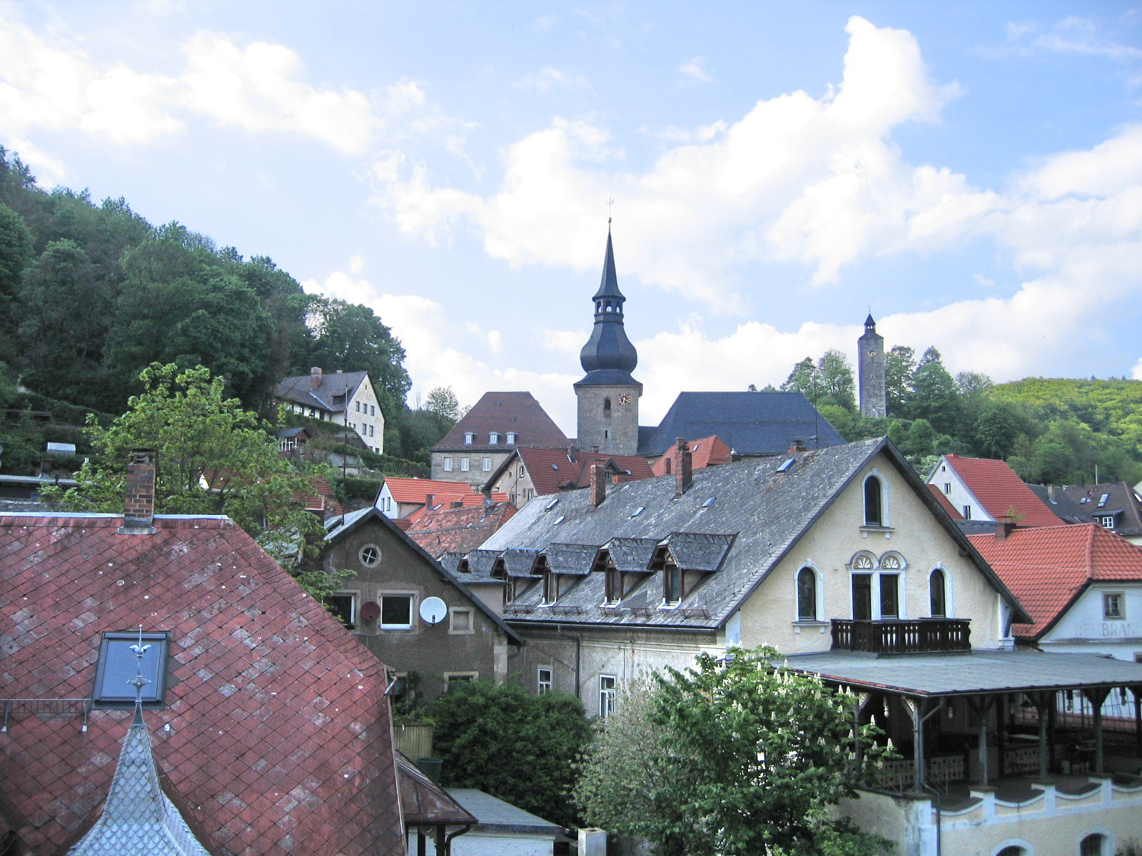 The town of Bad Berneck in Upper Franconia, Bavaria, Germany.